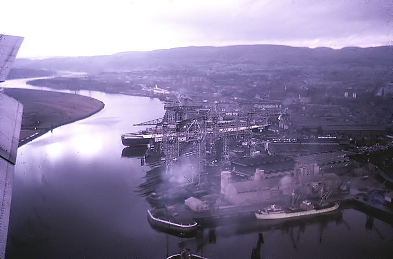 Pity about the dirty plane window! Arriving from Heathrow in a Vanguard. Modified by reducing noise 28-02-06